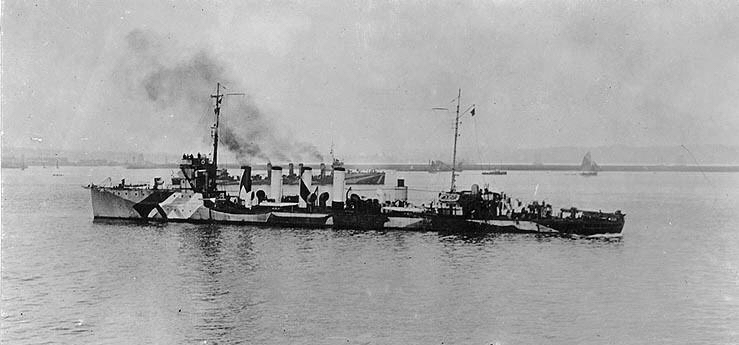 Removed caption read: Photo # NH 56377 USS Benham leaving Brest harbor, France, 22 October 1918